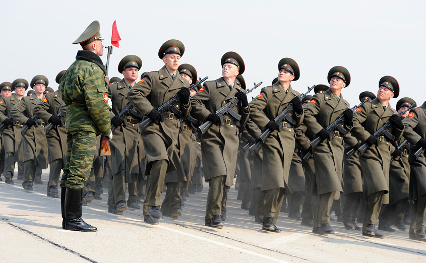 Repetition of a victory parade